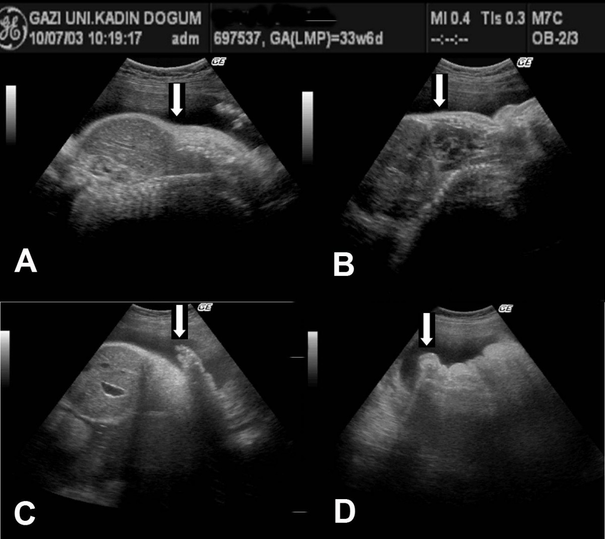 High abdomen/thorax ratio (A), pulmonary hypoplasia and narrow thorax (B), extreme micromelia (C, D) are observed in the prenatal sonogram at 33 weeks and 6 days of gestation.